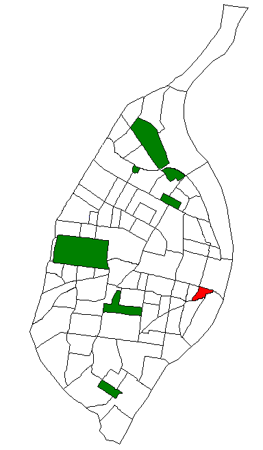 Map of St. Louis Neighborhood #34 (La Salle or LaSalle)